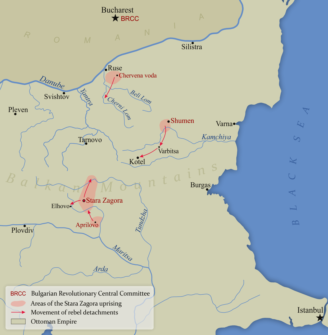 Map of the Stara Zagora uprising (1875) Основана на карта "Националнореволюционно движение (1862-1875)" в "Атлас по история на България за средните училища", издателство "Картография", София, 1990 г.